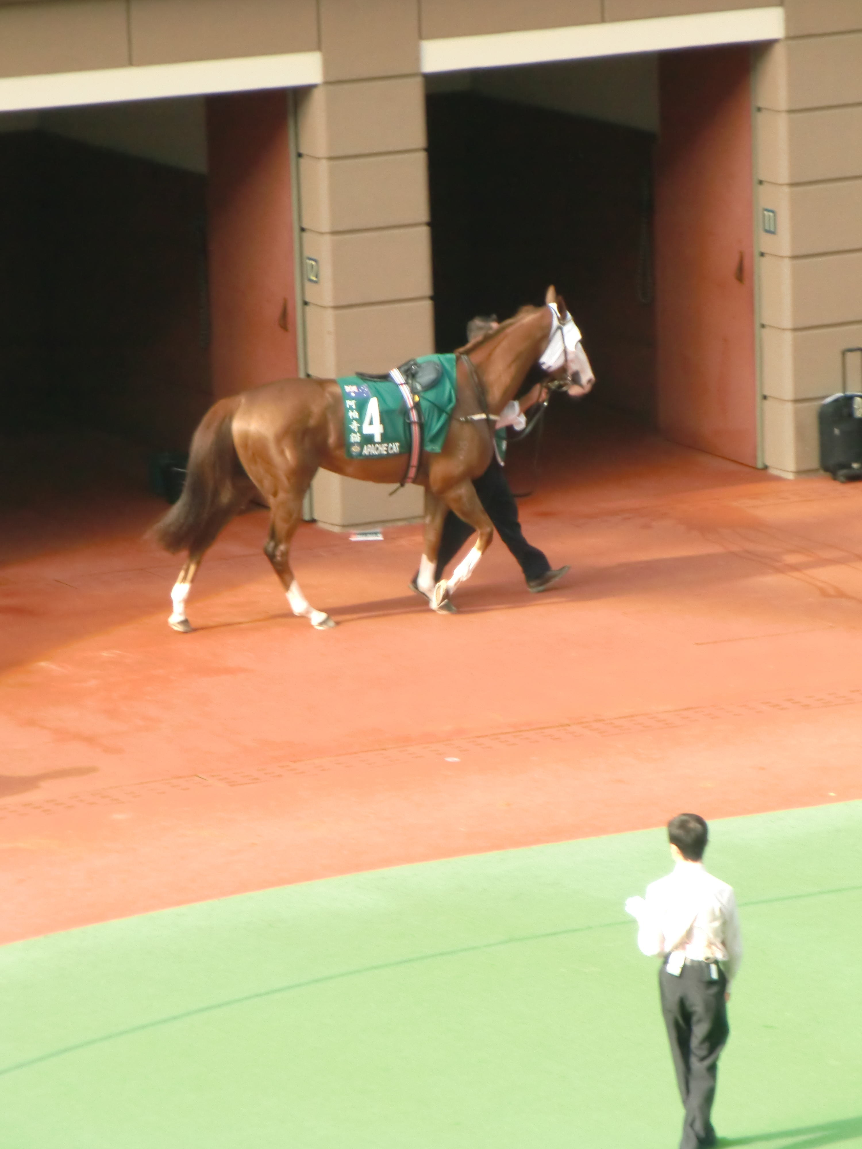 Apache Cat, a Thoroughbred race-horse trained in Australia. Taken in Sha Tin racecourse.